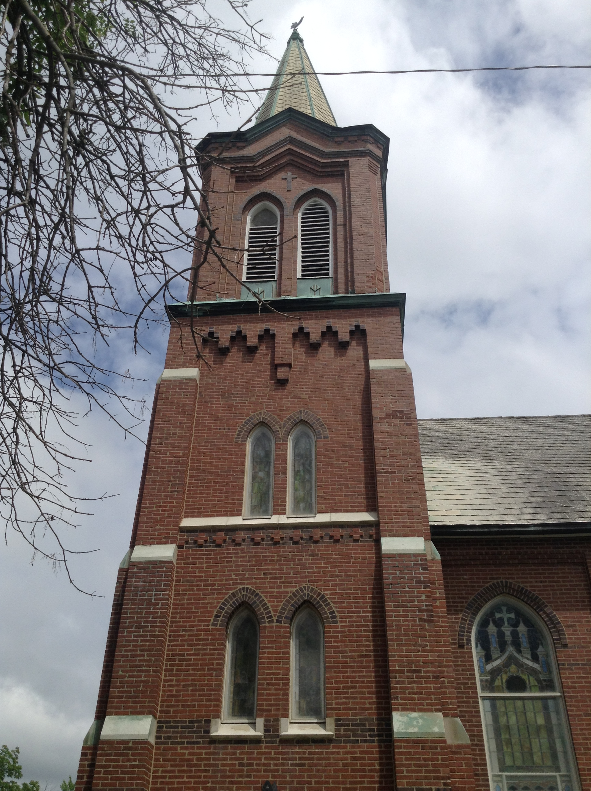 Church Tower of Frankfort, Ill.